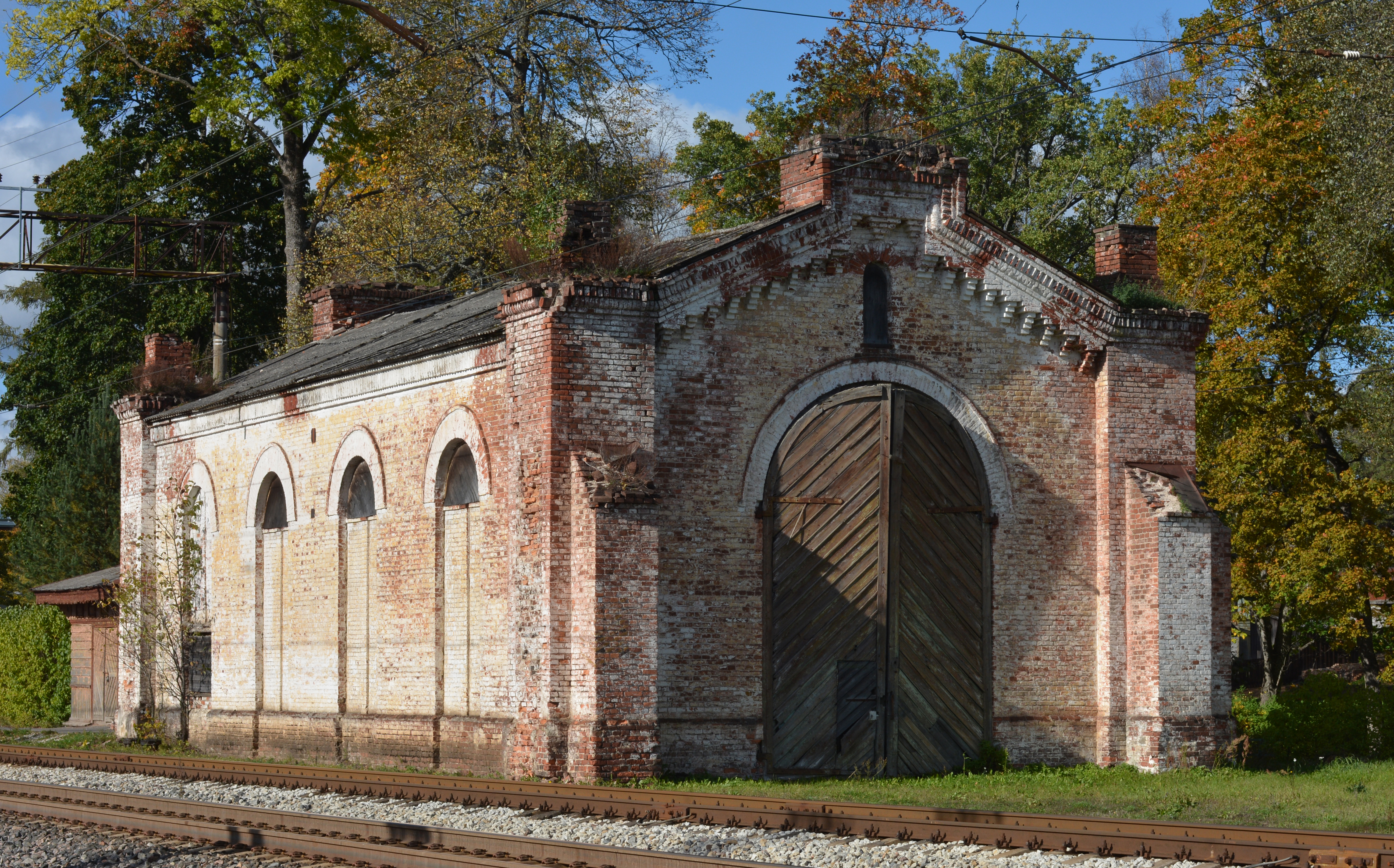 Aegviidu railway station, depot.